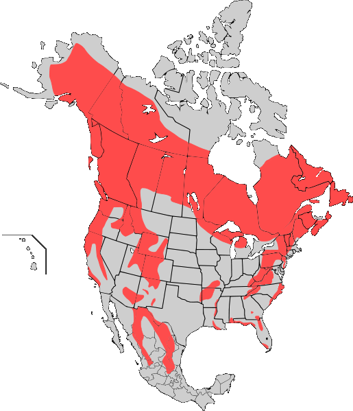 Range map of the American Black Bear (Ursus Americanus) updated, Includes state and province borders, as well as Hawaii.